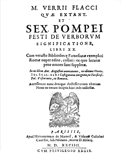 M. Verrii Flacci quae extant et Sex Pompei Festi de verborum significatione libri XX ...: in eos libros Ant. Augustini annotationes ex editione veneta Ios. Scaligeri castigationes ... ex parisiensi Ful. Ursini notae ex romana ... Publisher: apud Hieronymum de Marnef [et] viduam Gulielmi Cauellat, 1604